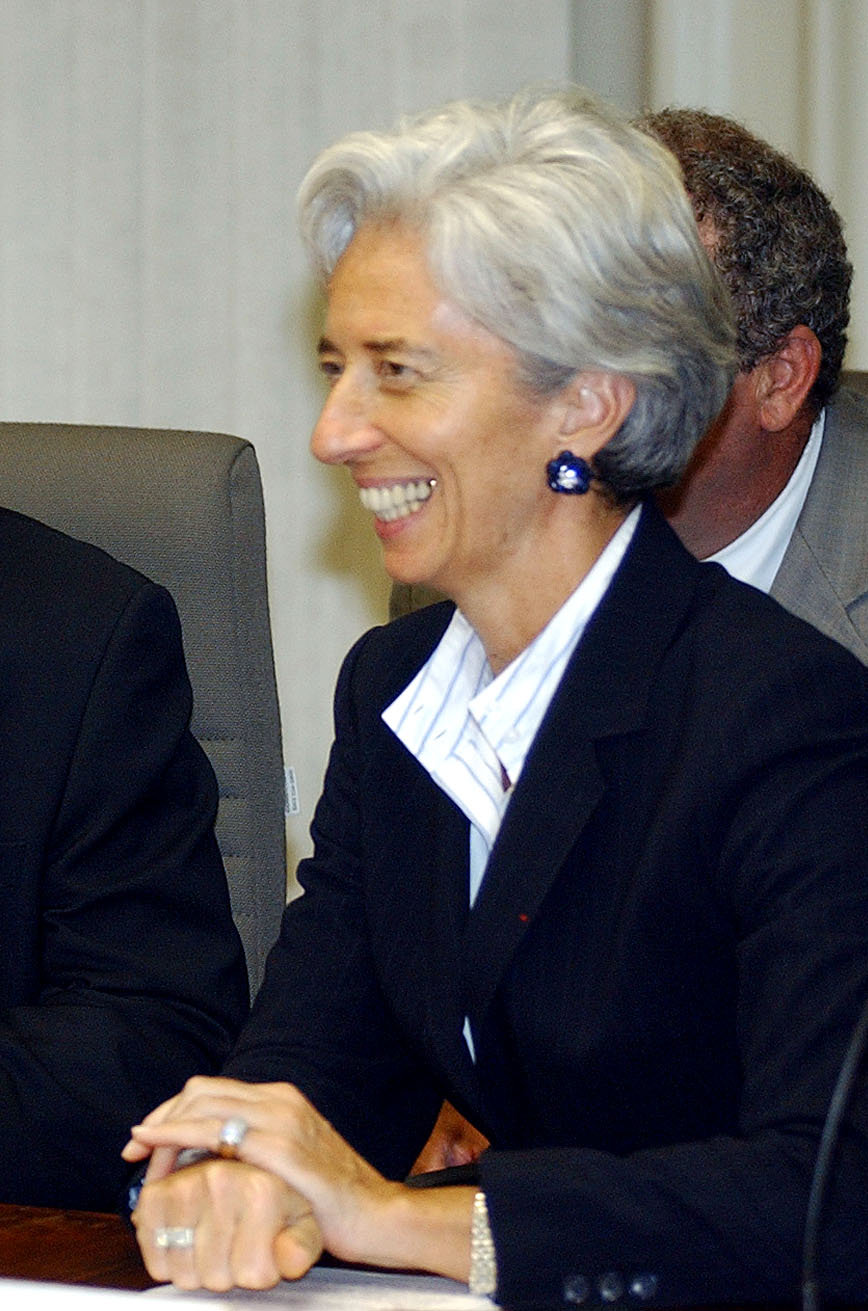 Ministers Gestao and Lagarde